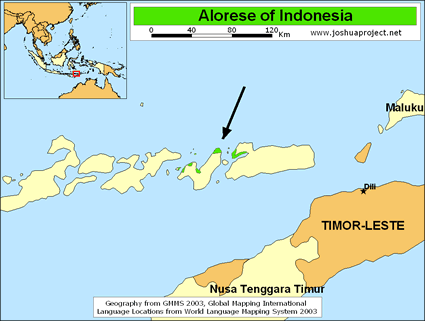 Alorese of Indonesia